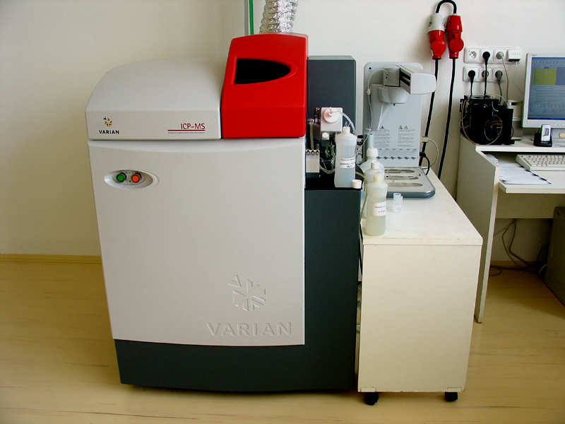 Analytical instrumentICP-MS from Varian company production Photo Prague 2006-11 Author =Karelj